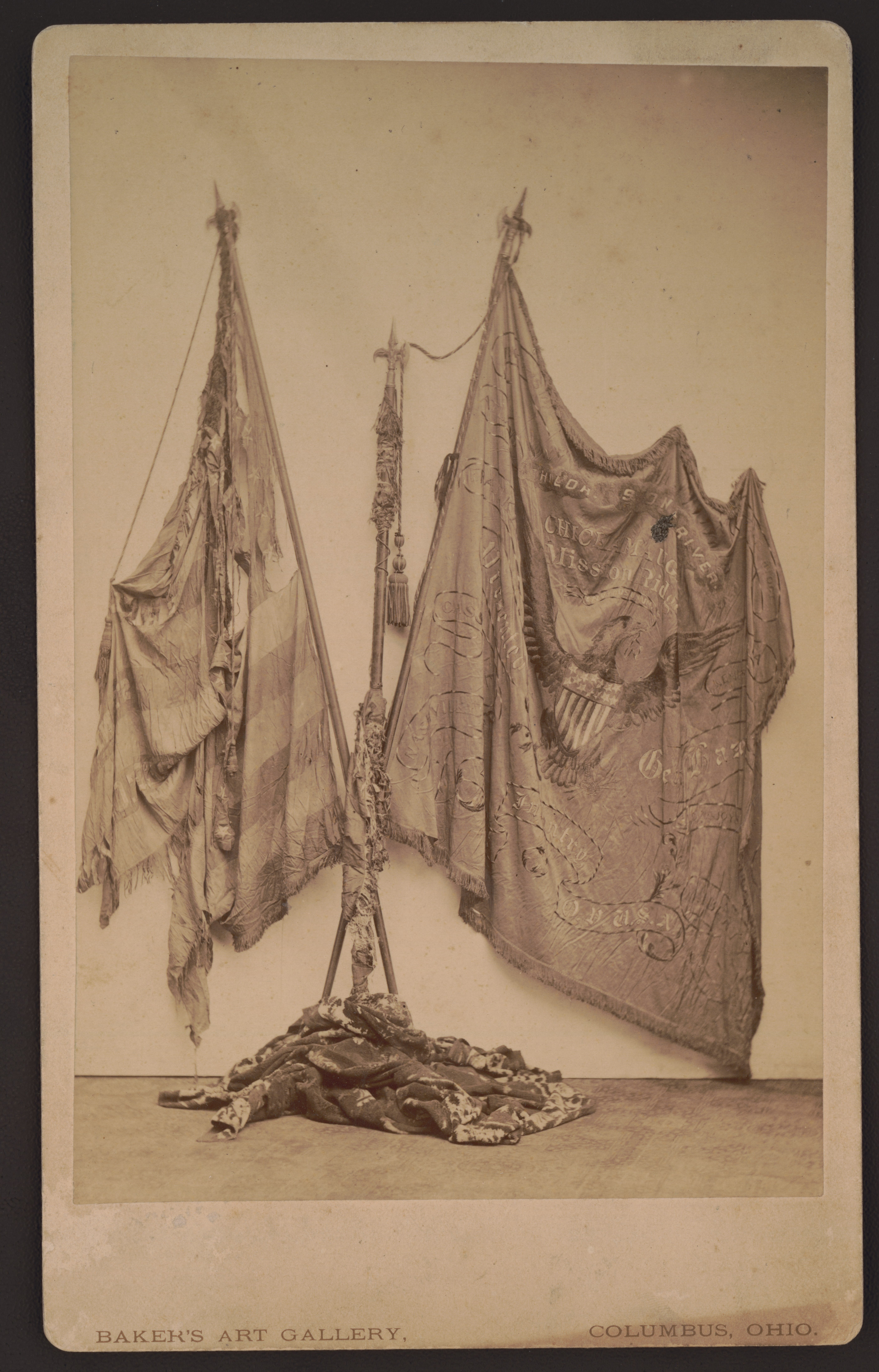 Title: Regimental flags of 41st O.V.I. / Baker's Art Gallery, Columbus, Ohio. Abstract/medium: 1 photograph : albumen print on card ; sheet 19 x 12 cm, mount 22 x 14 cm (boudoir card format).